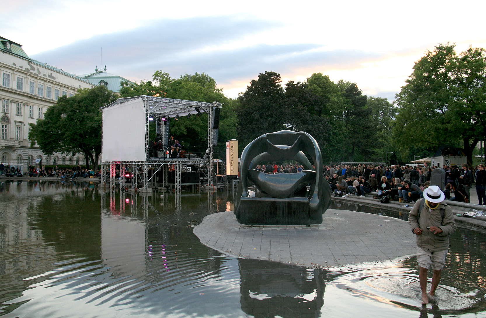 Son Of A Velvet Rat, Popfest 2011 in Vienna.